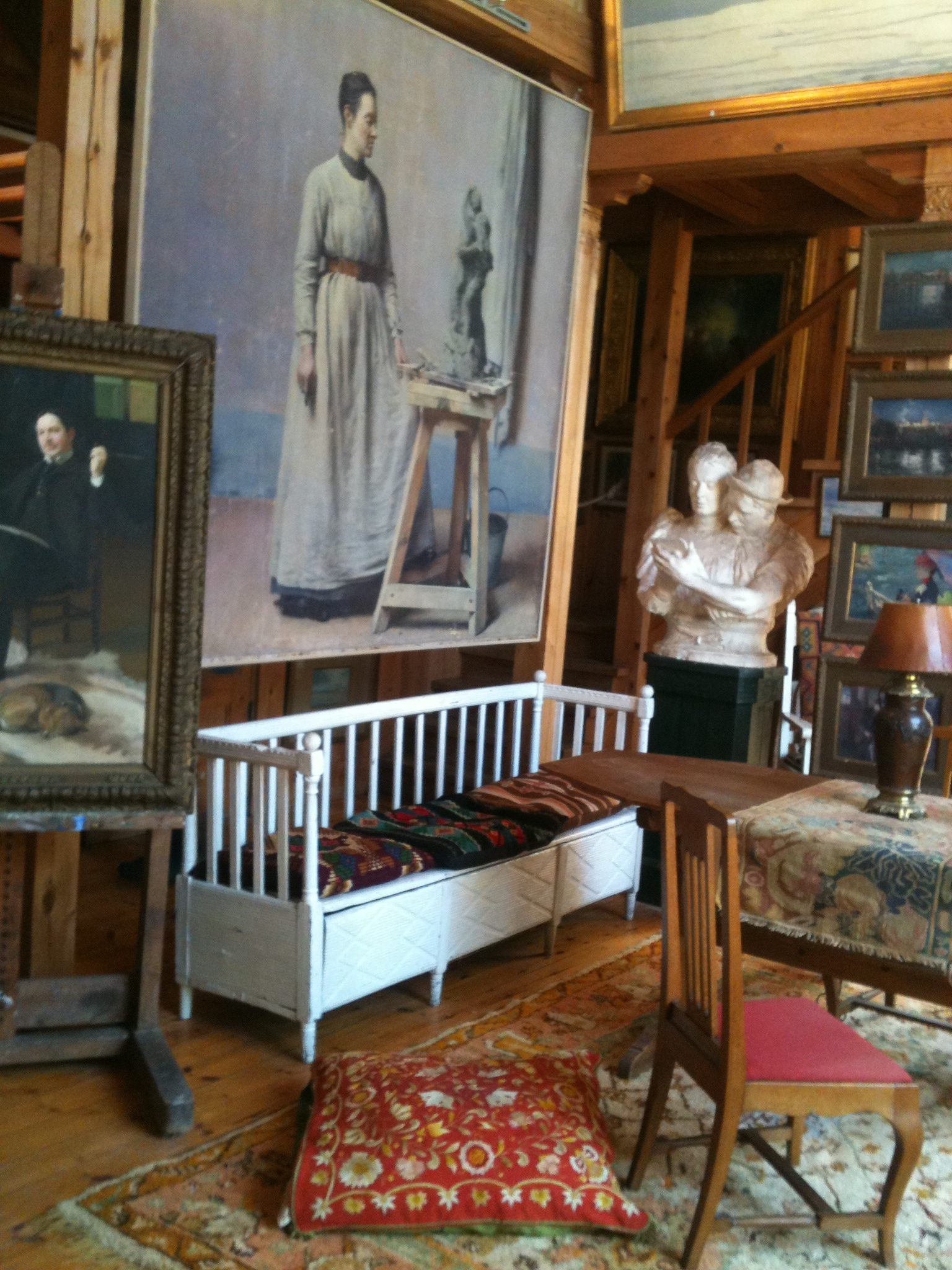 Brucebo, William Blair Bruce and Caroline Bendedikts artist´s home, atelier